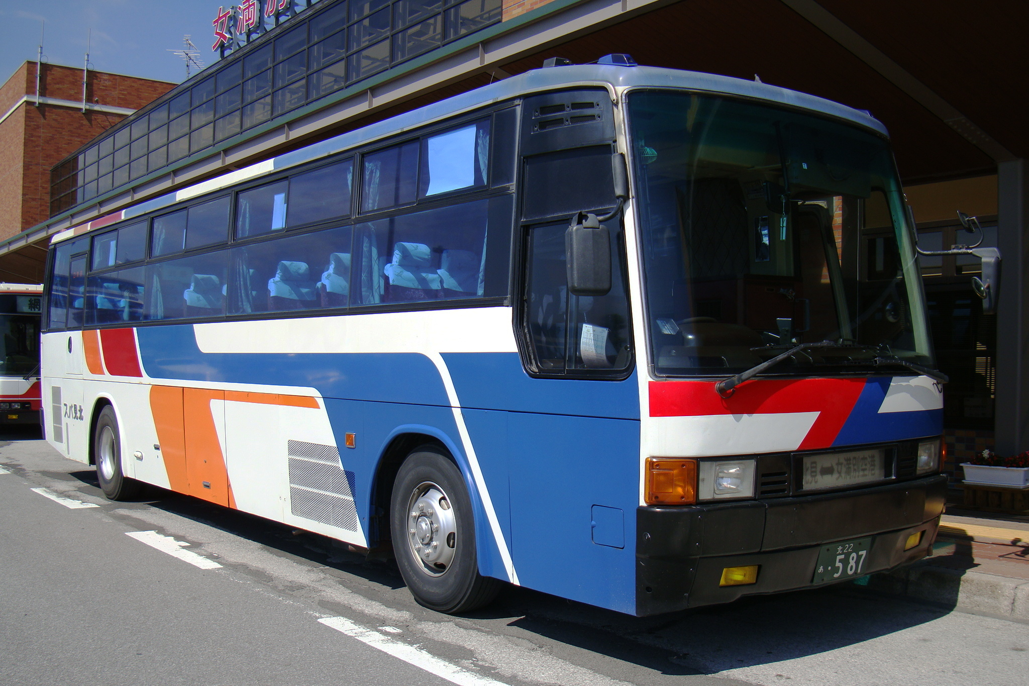 Memanbetsu Airport to Kitami